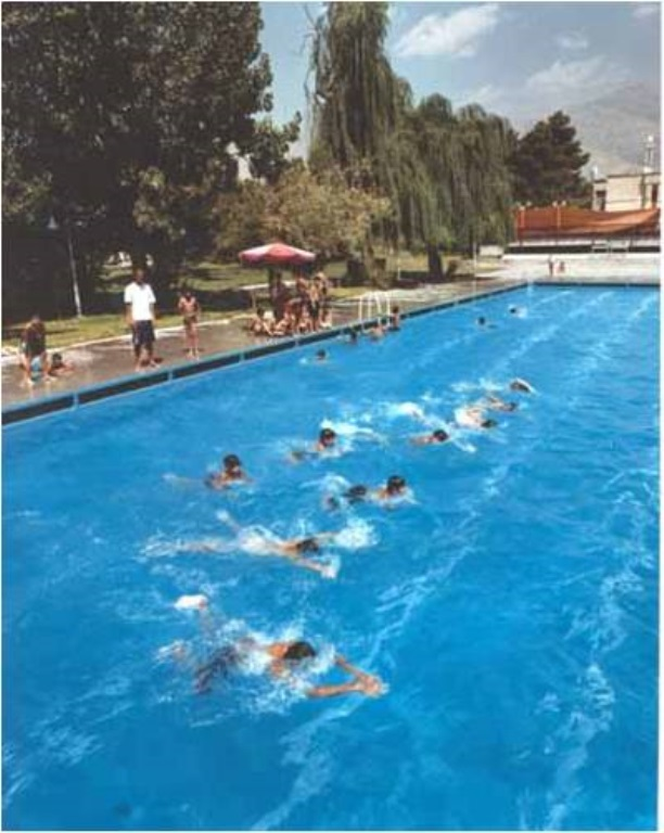 four season pool in enghelab complex